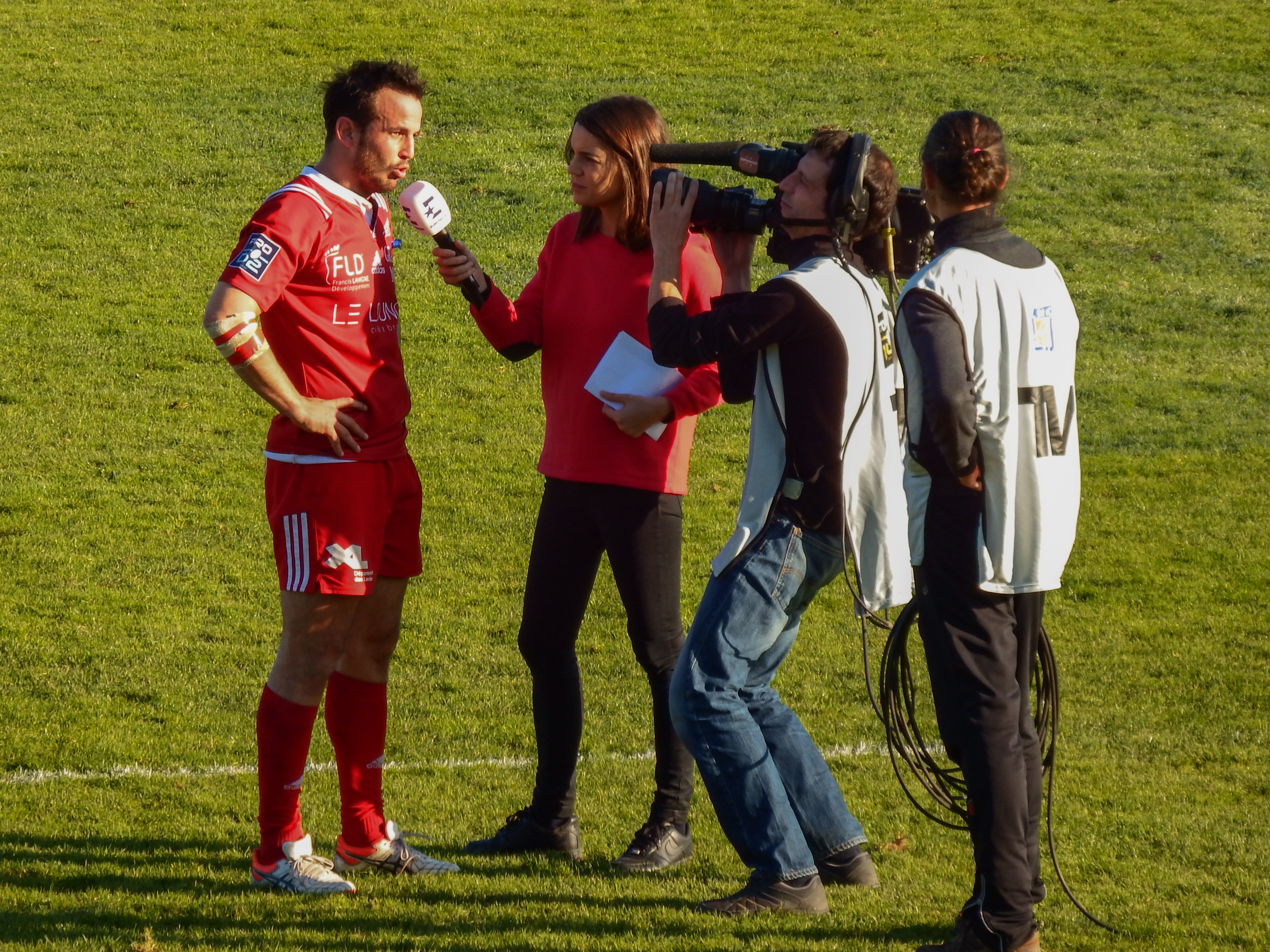 2015–16 Rugby Pro D2 season — 13 December 2015, Stade Maurice Boyau. Match between: US Dax — Lyon OU